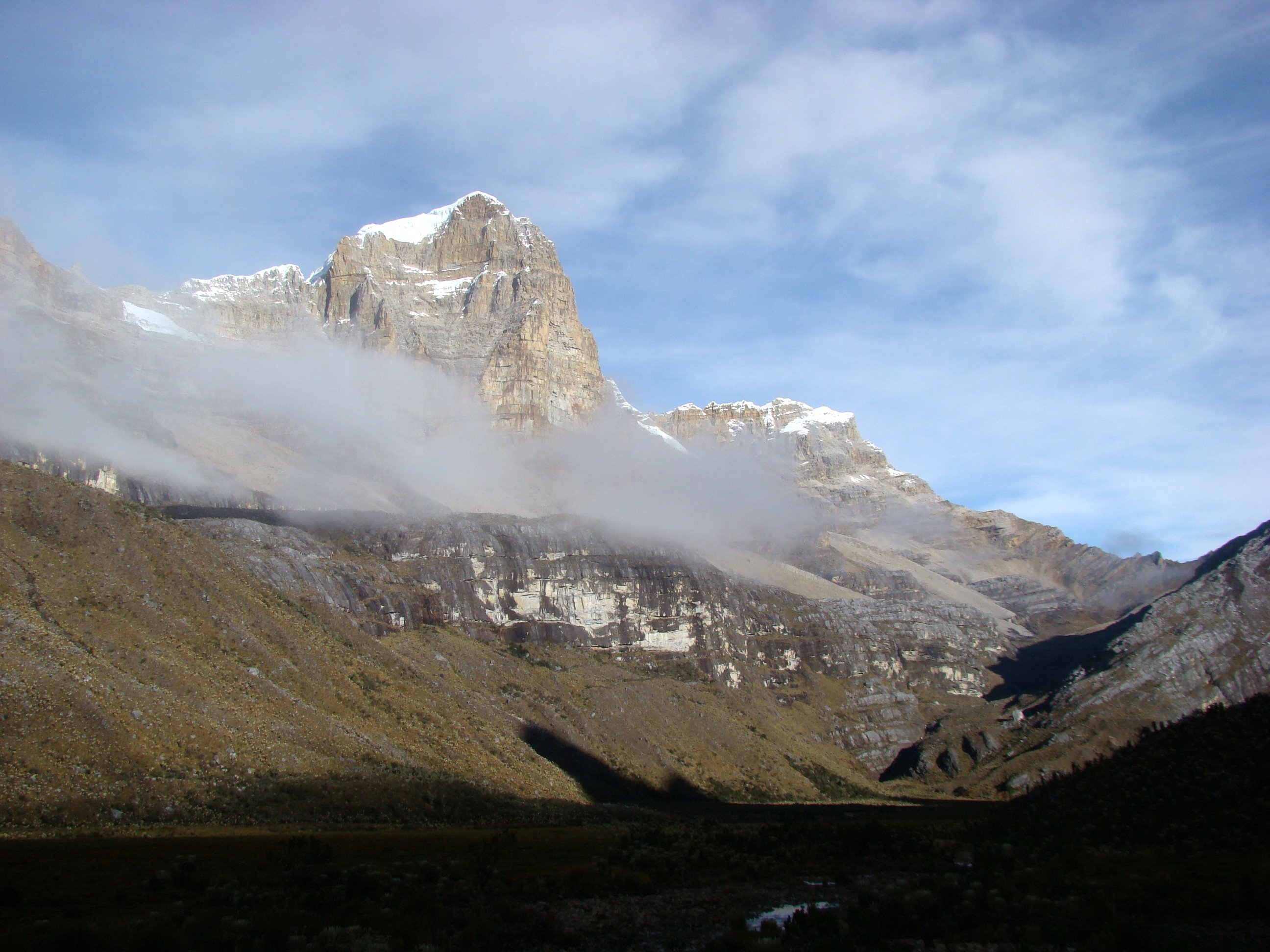 Ritacuba Blanco, seen from the Valle de Cojines (Southeast).